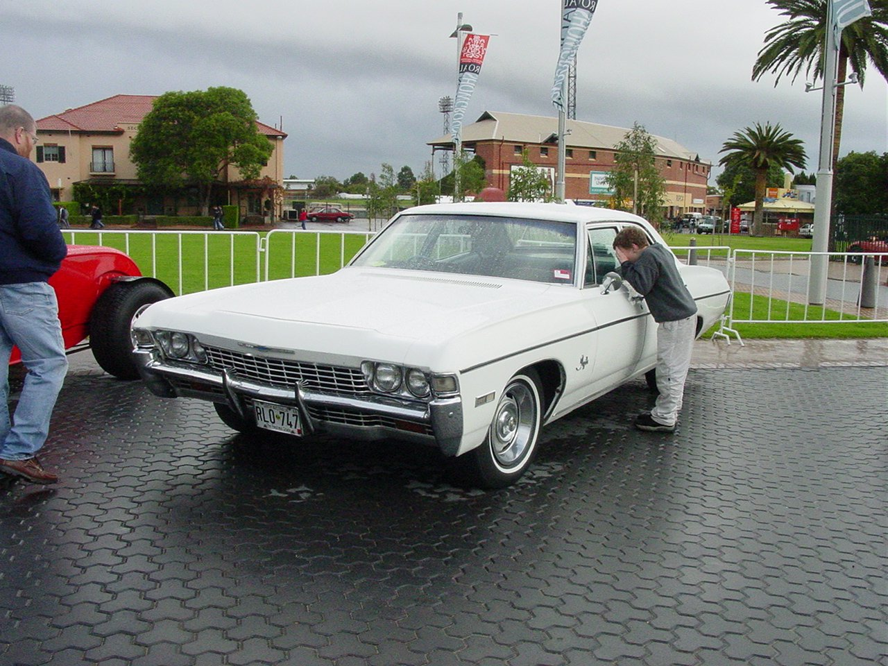 1968 Chevrolet Biscayne